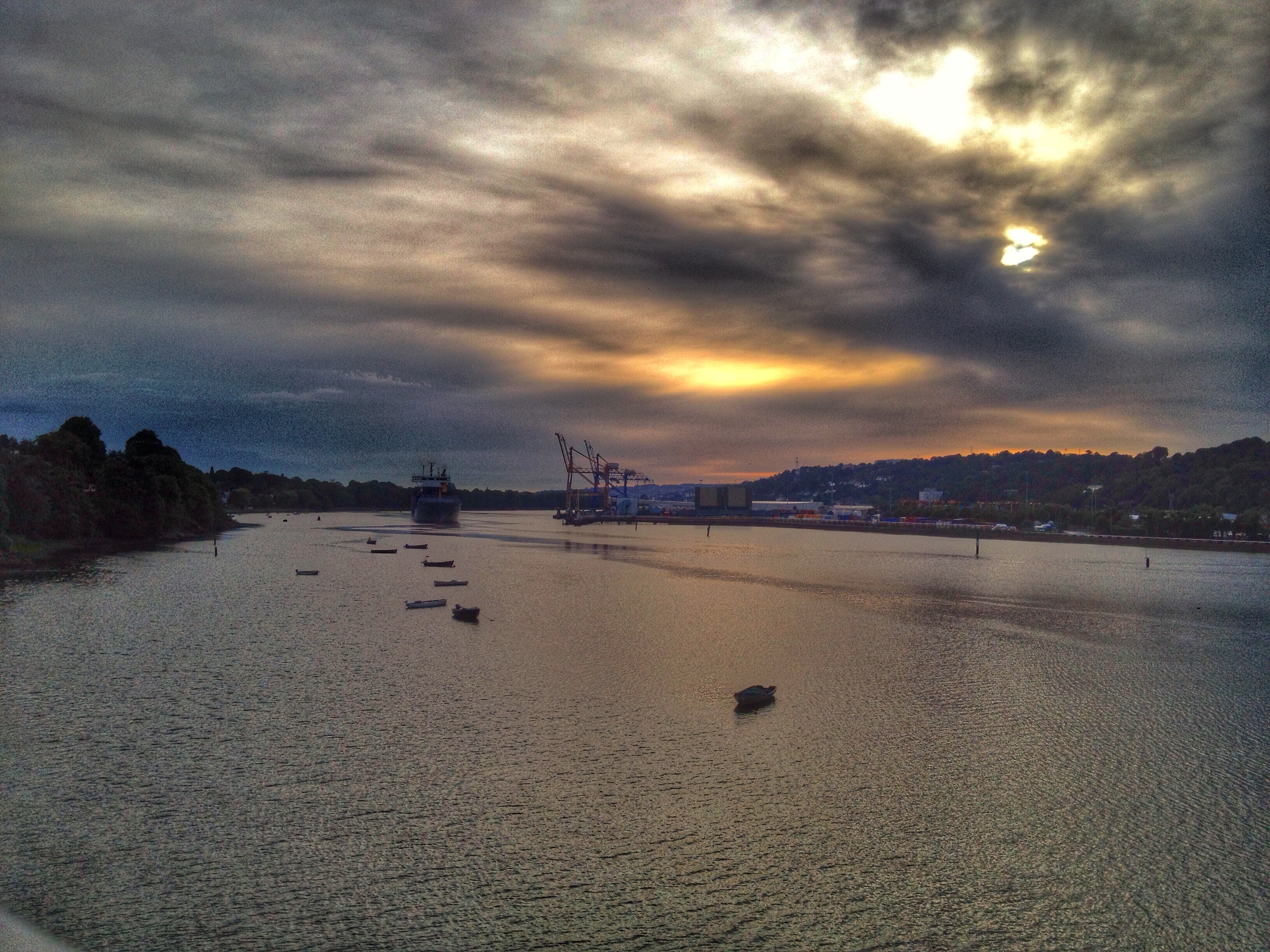 A view of Cork Harbor from Blackrock Castle